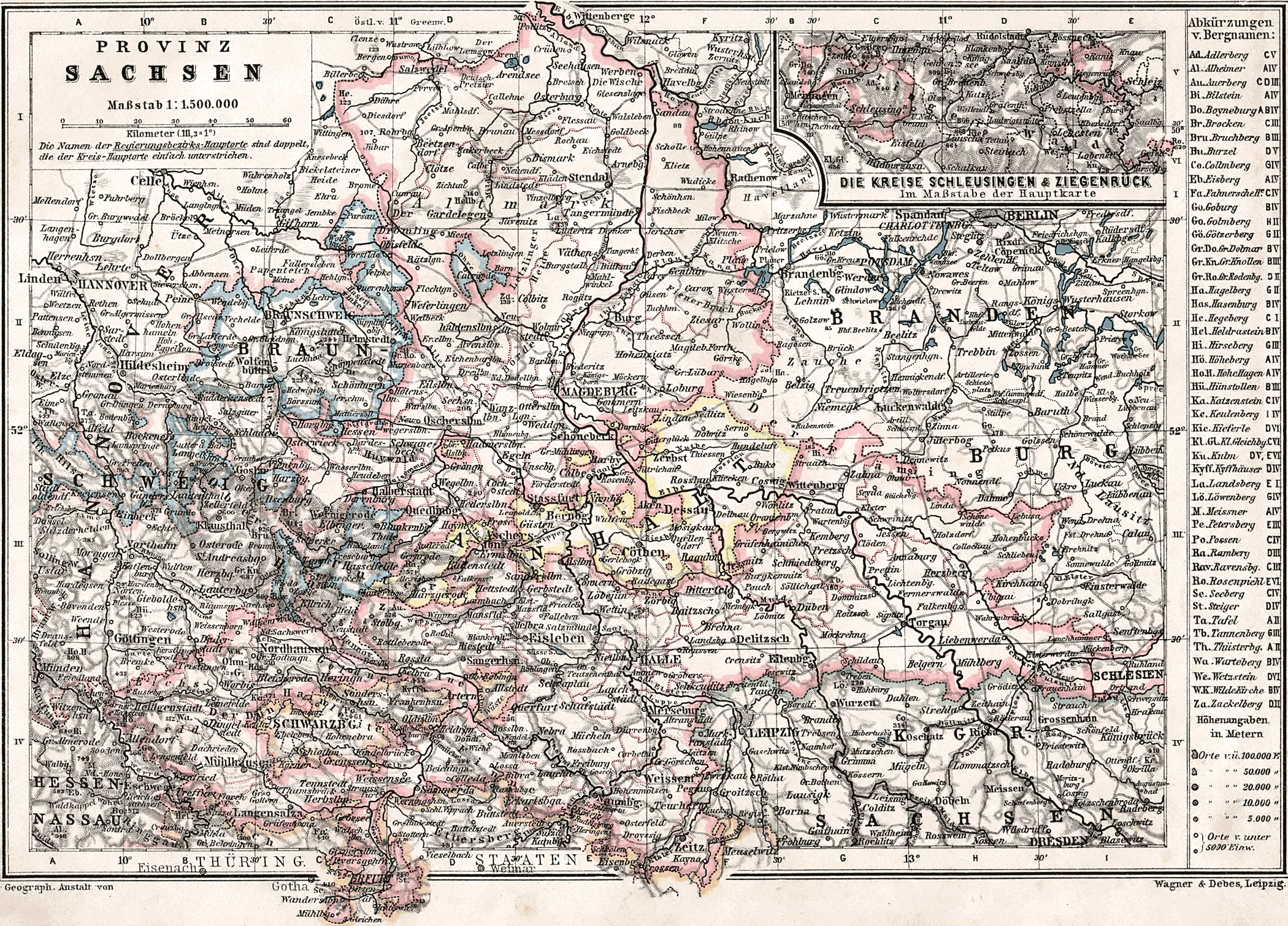 Historical map of Provinz Sachsen